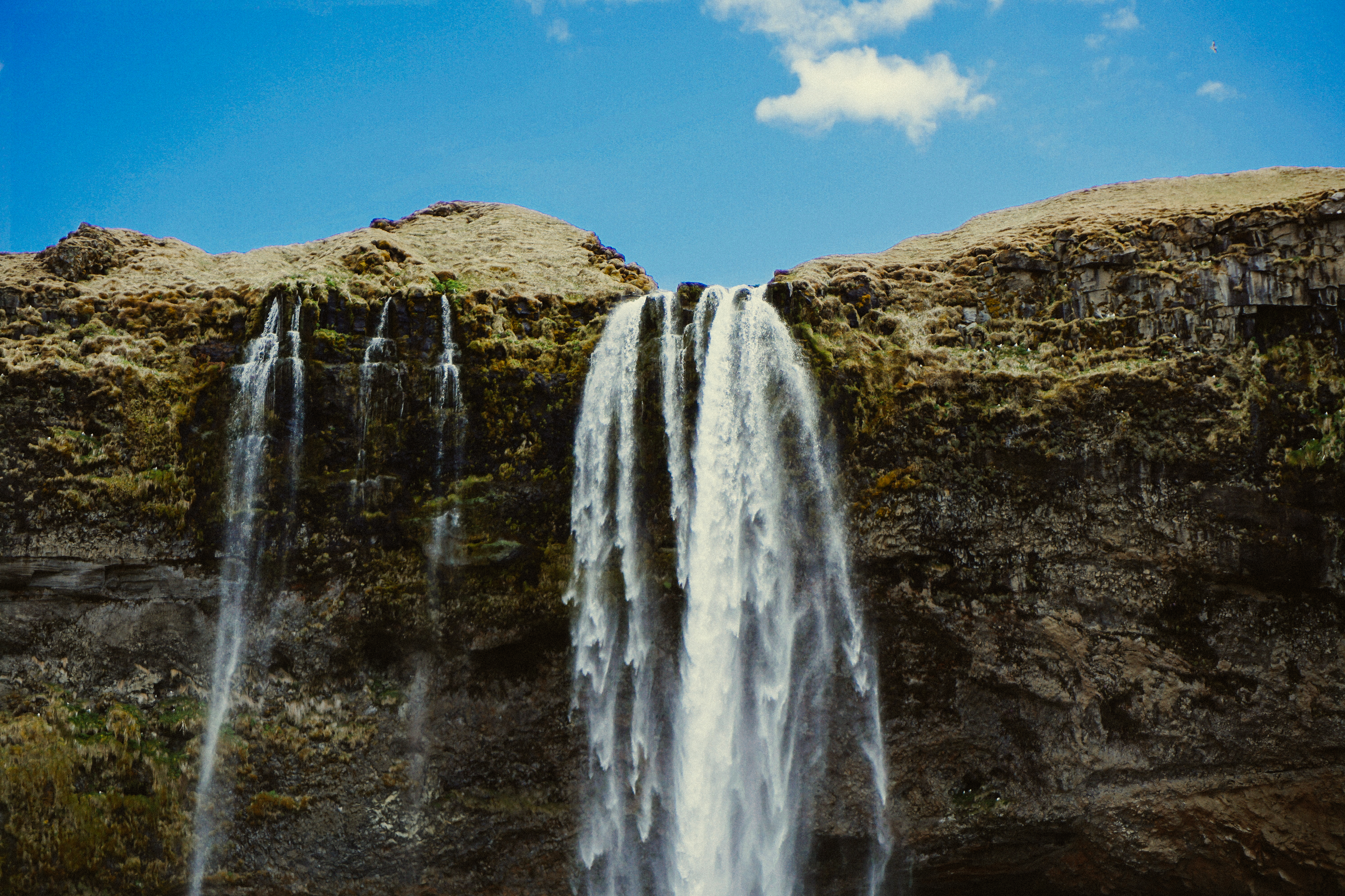 Iceland